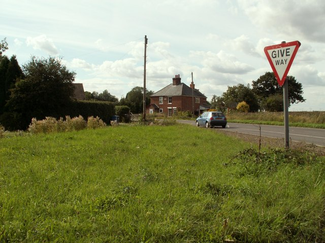 Hadleigh Heath, Suffolk. The hamlet of Hadleigh Heath stands on the A.1071